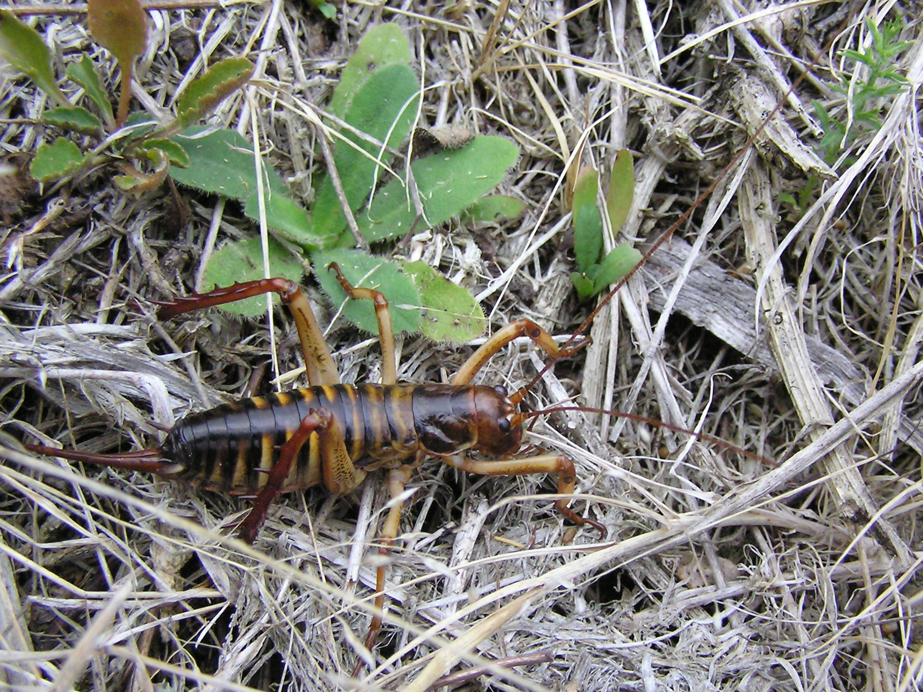 Female Wellington tree weta.